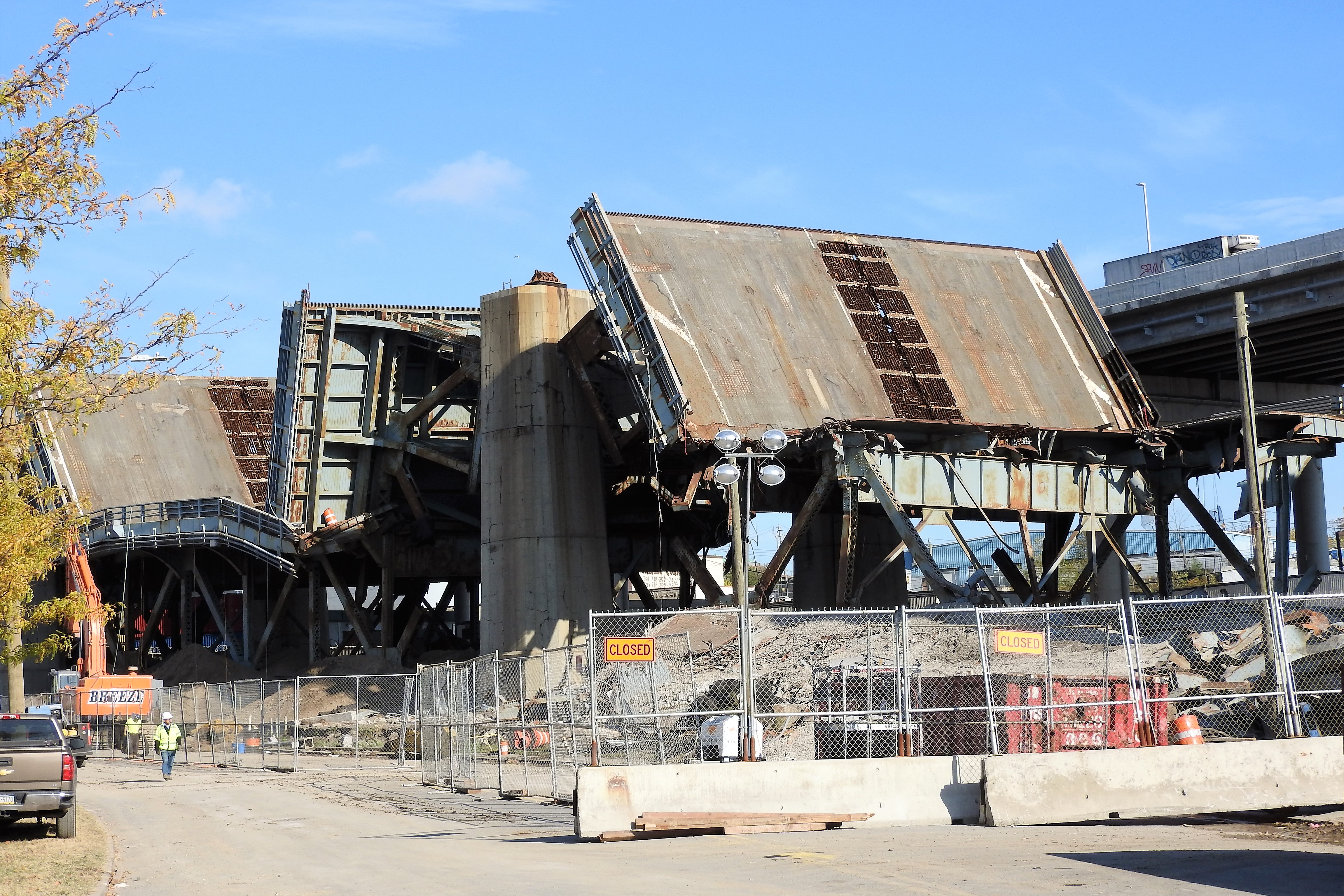 Looking east at collapsed approach